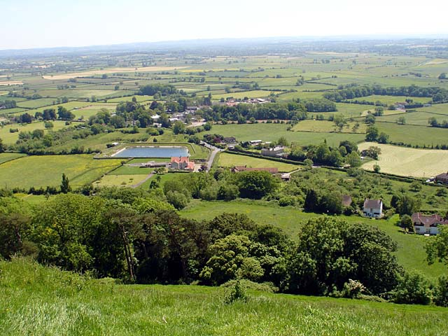 View towards Edgarley and Kennard Moor. Looking over the Somerset Levels whilst standing near the top of Glastonbury Tor. Edgarley reservoir 166893 near the middle of the photograph